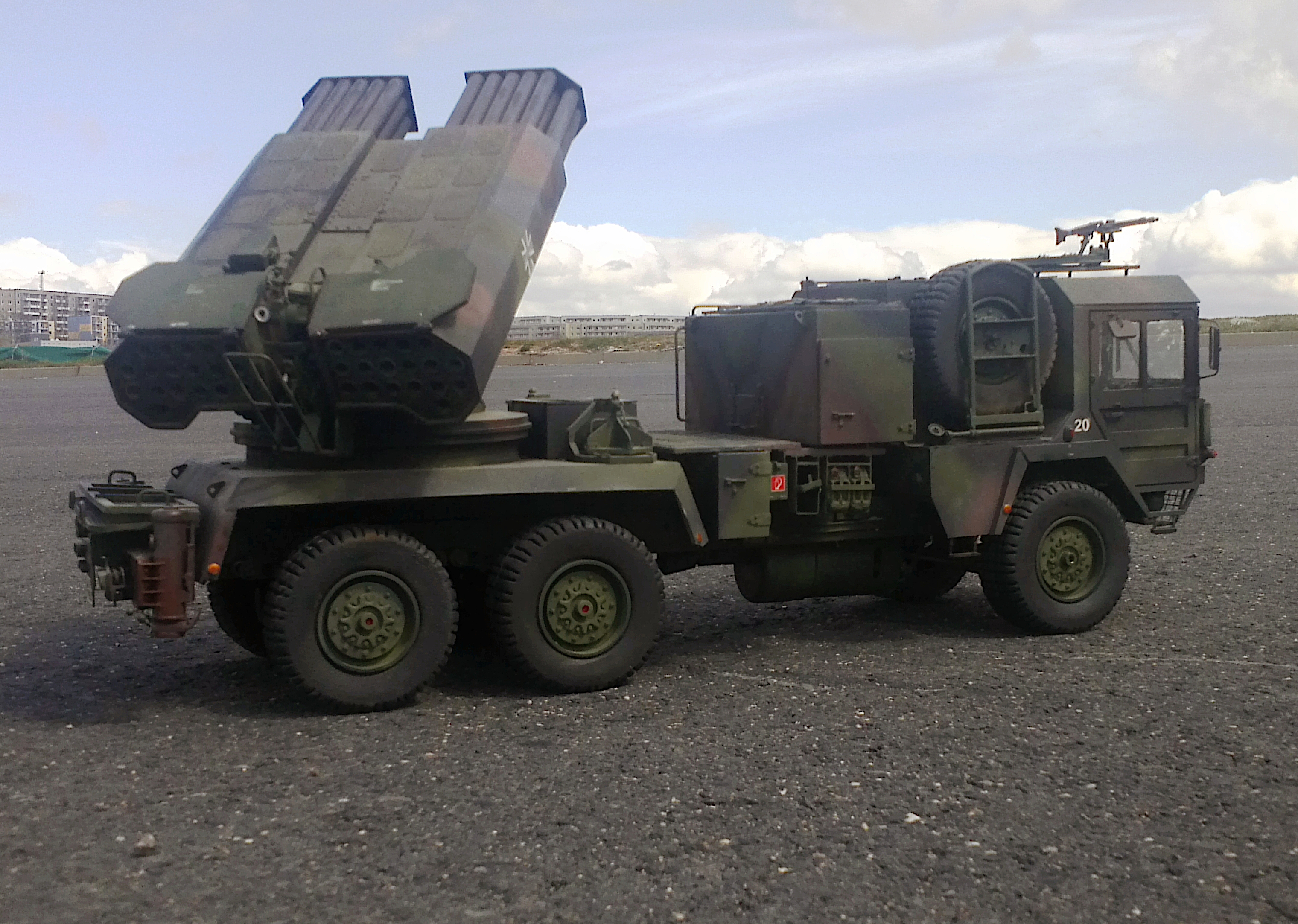 Multiple rocket launchers 110 SF, to chassis MAN 7 tons, 6x6, mil gl, light artillery rocket system launchers LARS2 in position, rear view